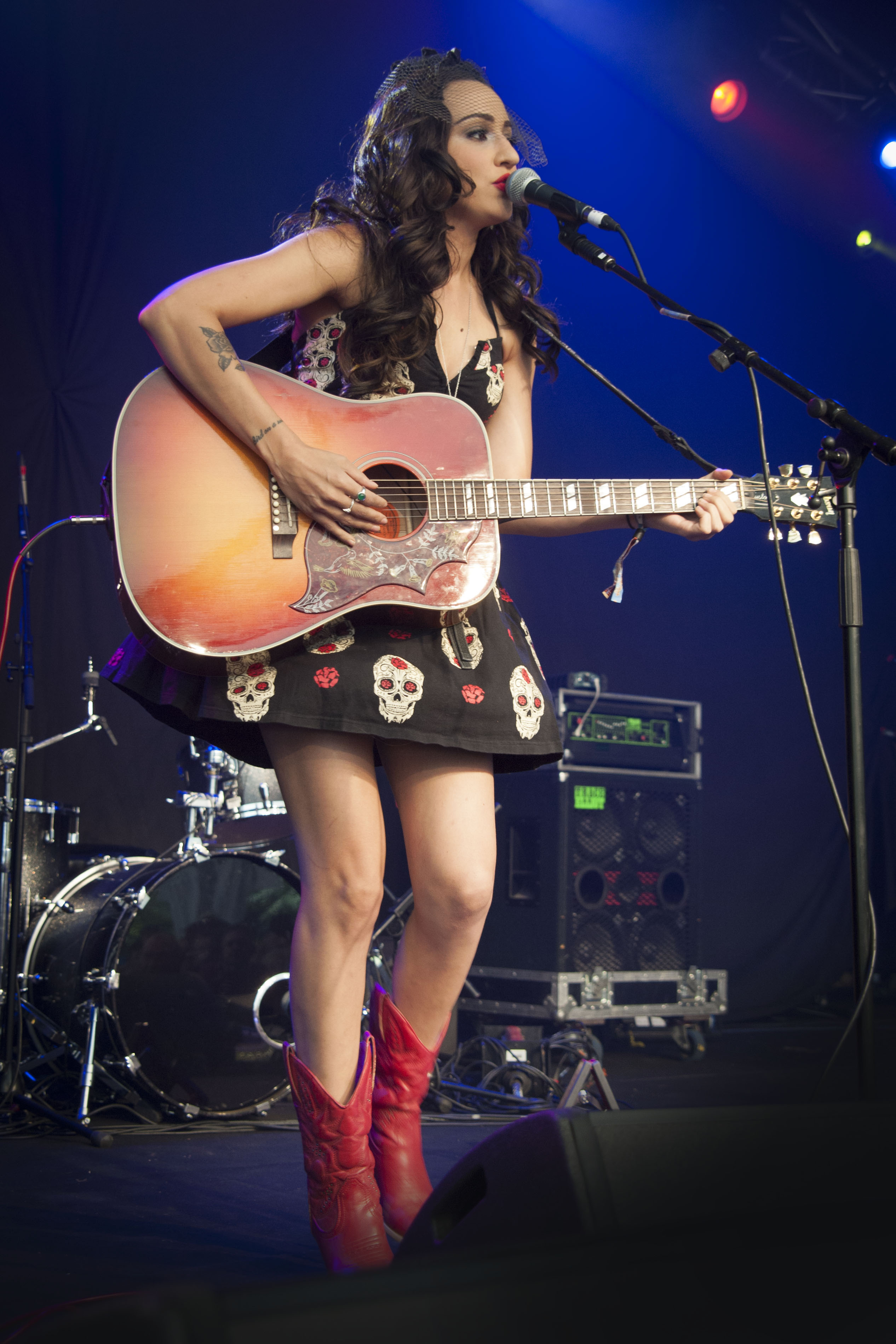 Cambridge Folk Festival 50th Anniversary